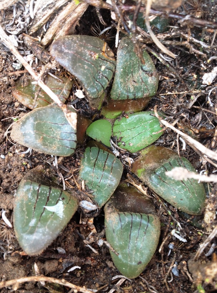 Haworthia springbokvlakensis MBB - Kirkwood